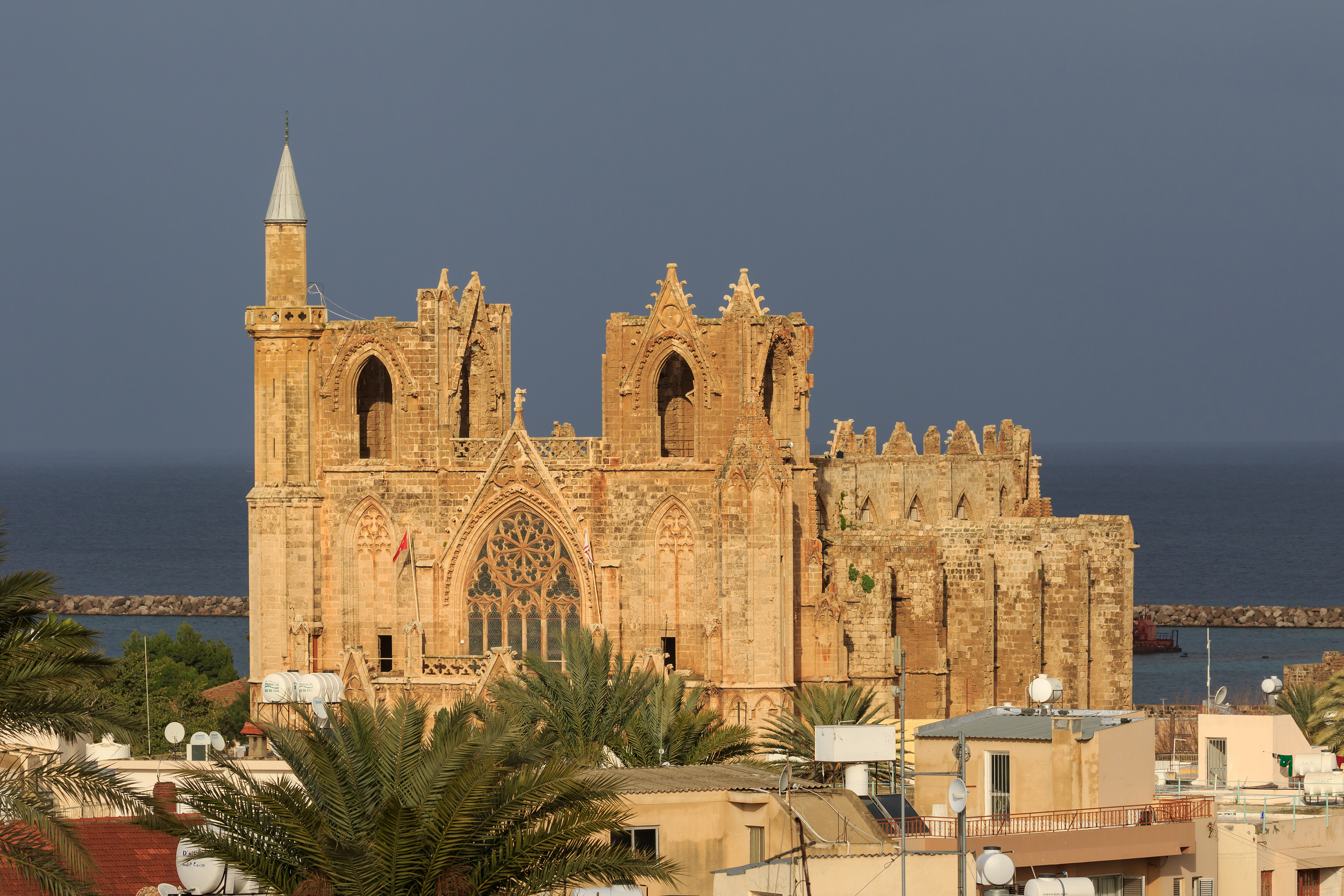 Lala Mustafa Pasha Mosque (former St. Nicholas Cathedral), view from the ravelin of the city wall in Famagusta, Cyprus